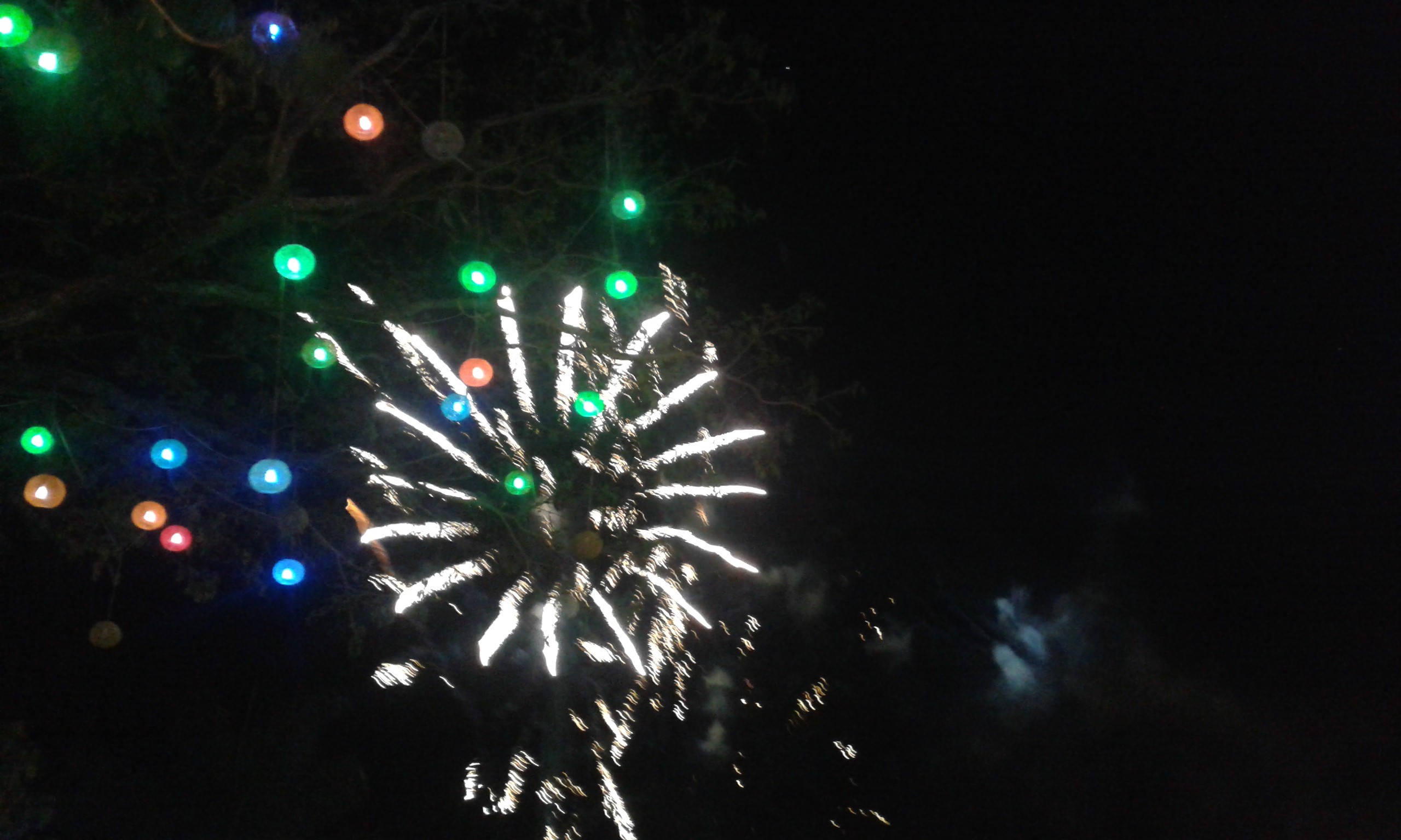 Firework in Buon Ma Thuot Festival